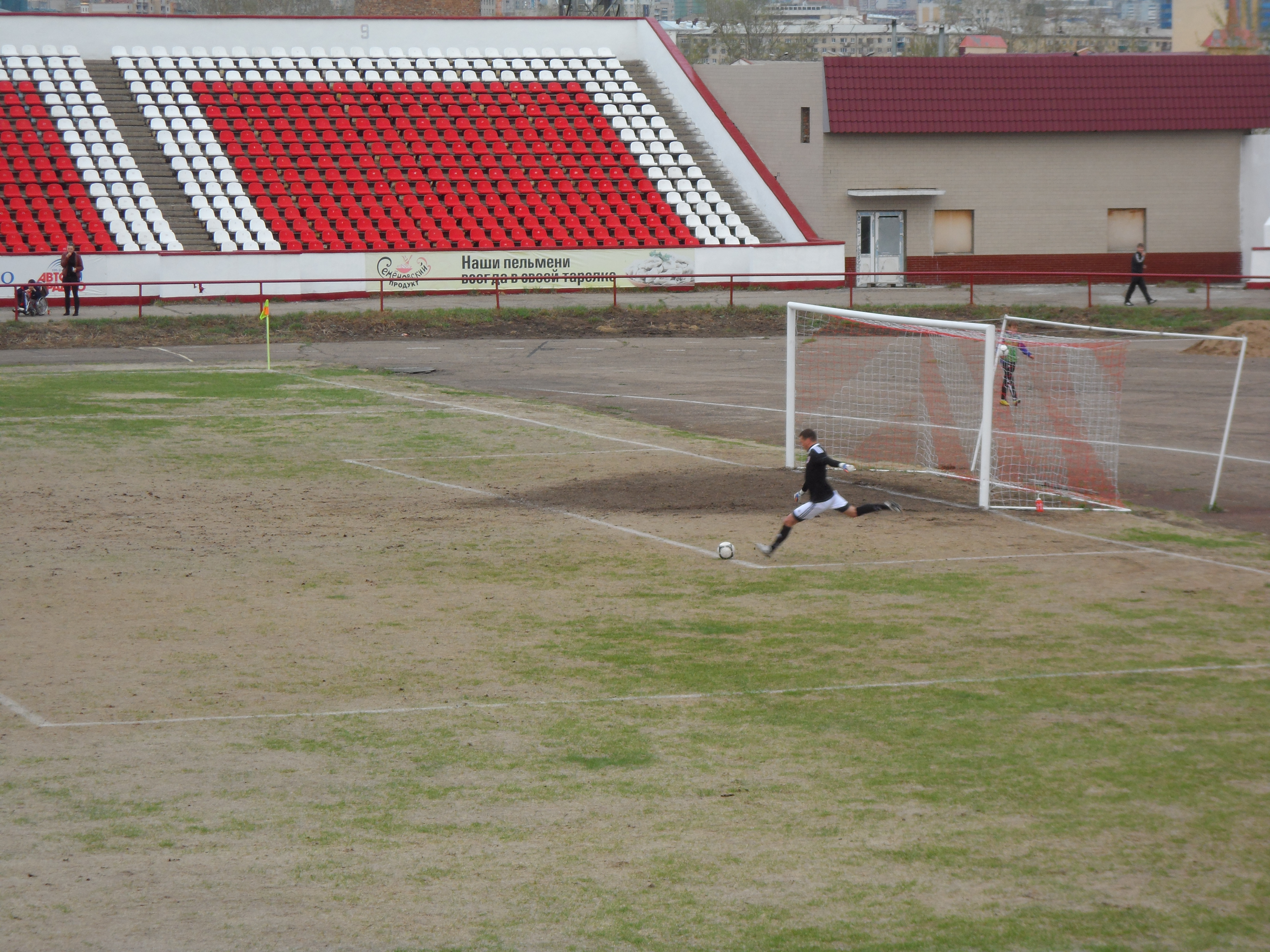 FC «Chita» goalkeeper Maksim Schastlivtsev enters the ball in play. Episode of the match «Chita» - «Dinamo» (Barnaul). 39th round of the competition in «East» zone of the Russian second division. May 19, 2012.